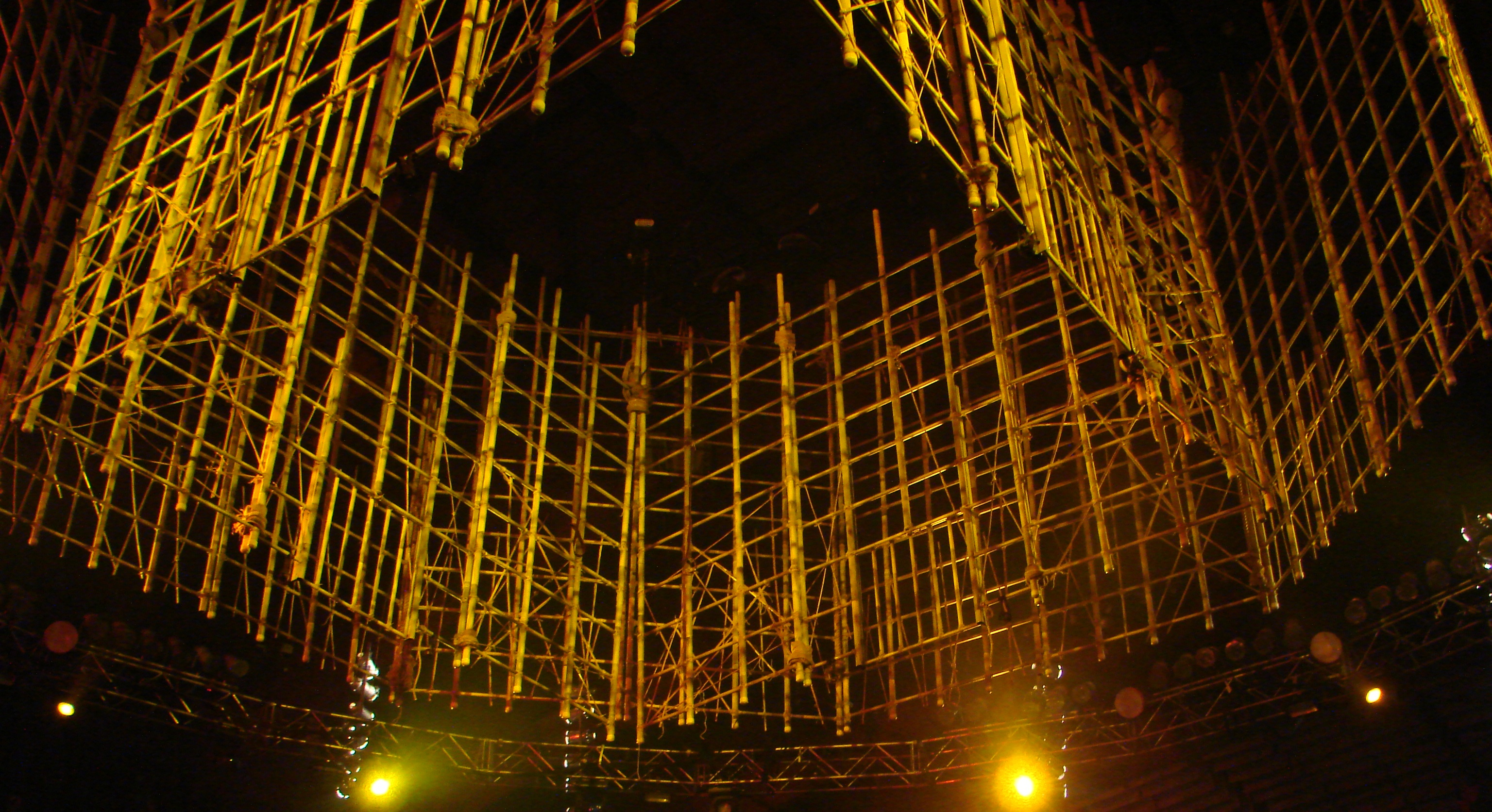 The Punjabi Prison Structure. WWE No Mercy 2007, Allstate Arena, Rosemont, Illinois. Taken by me, cropped.